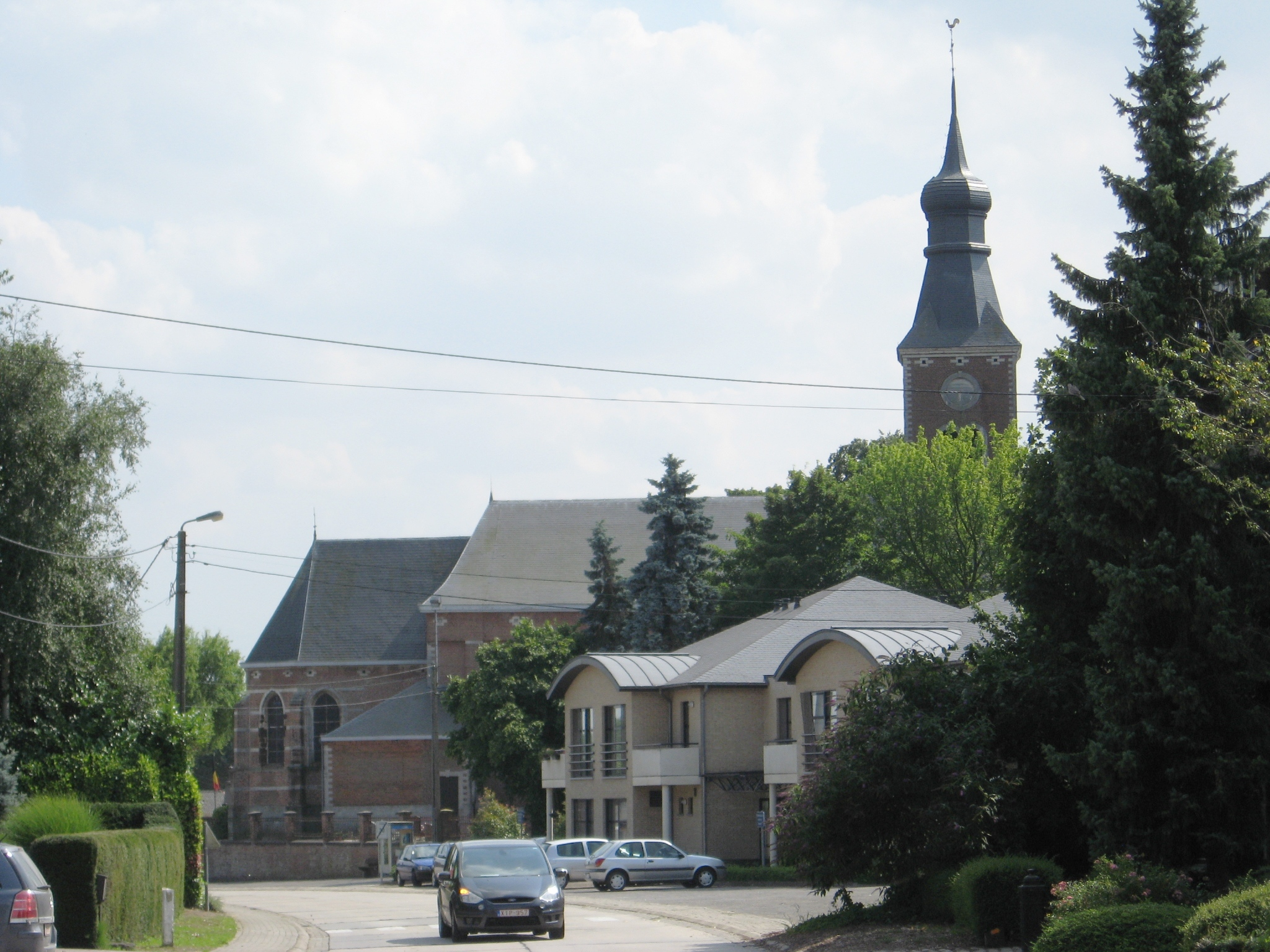 Church of Saint Servatius in Kersbeek, Kersbeek-Miskom, Kortenaken, Flemish Brabant, Belgium